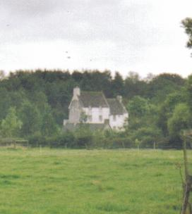 Aiket Castle, near Dunlop in Ayrshire